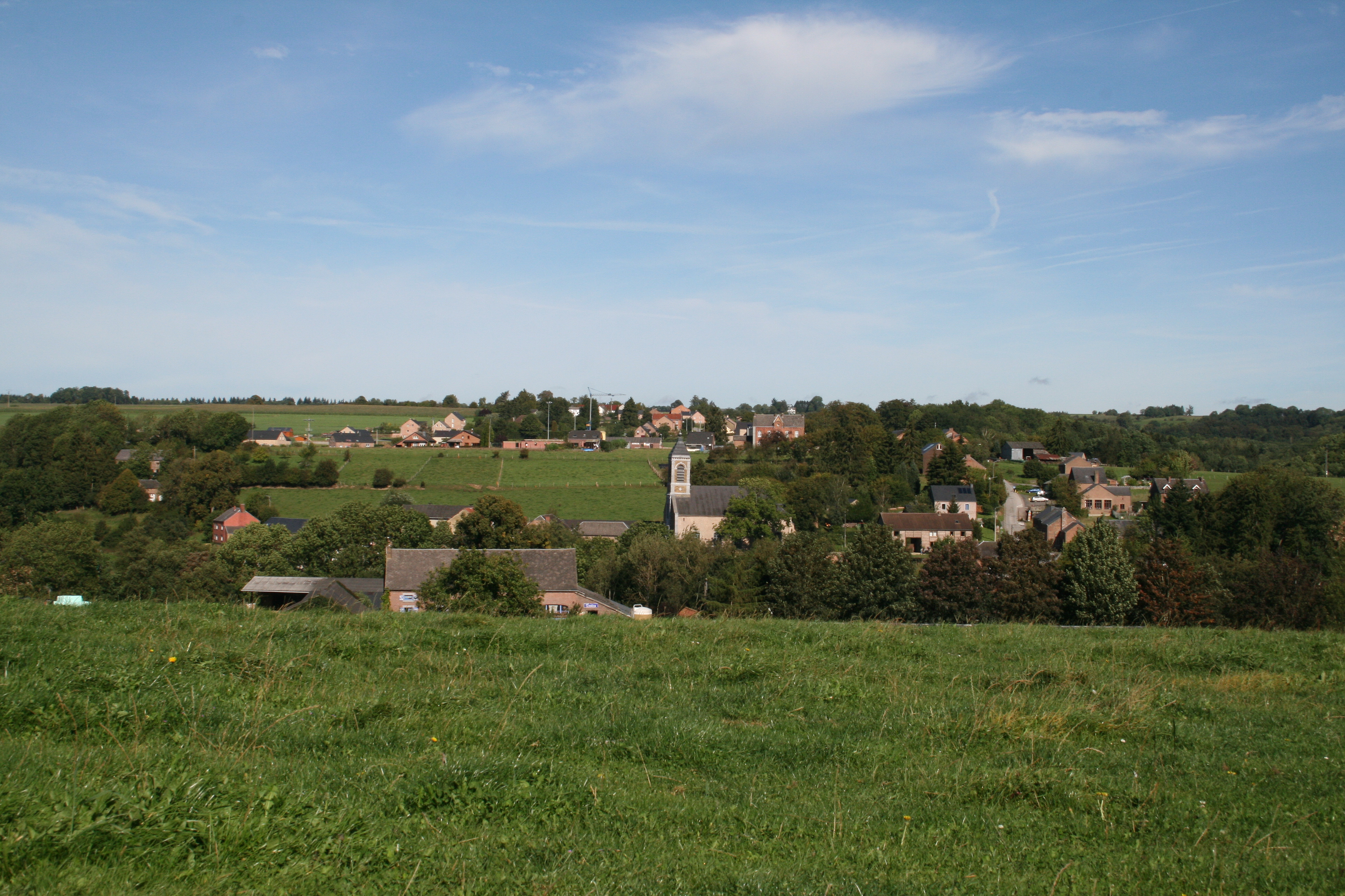 Chevetogne (Belgium), the village.